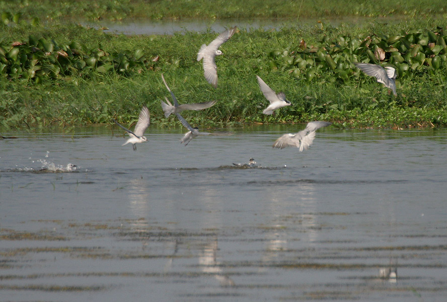 Whiskered Tern Chlidonias hybridus in Kolleru, Andhra Pradesh, India.